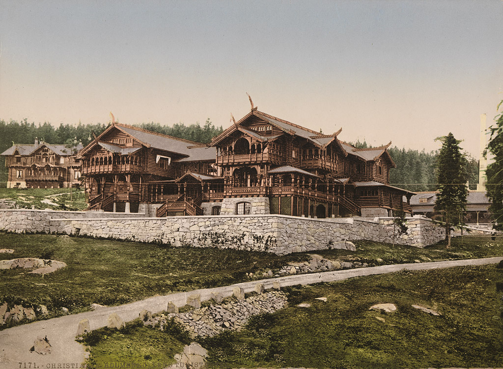 Tittel / Title: 7171. Christiania. Holmenkollens Turisthotel Dato / Date: ca 1890-1900 Fotograf / Photographer: ukjent / unknown Sted / Place: Oslo, Holmenkollen Eier / Owner Institution: Nasjonalbiblioteket / National Library of Norway Lenke / Link: Bildesignatur / Image Number: bldsa_FA0718